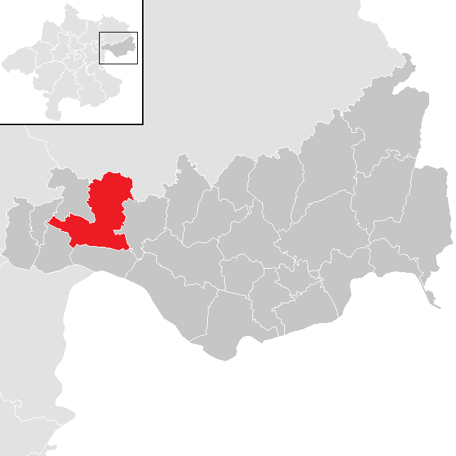 district Perg